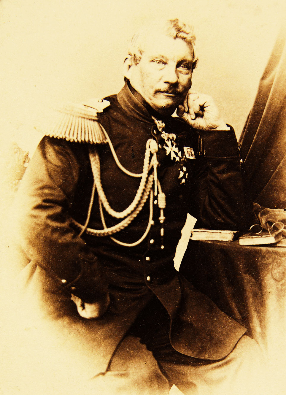 General van Swieten